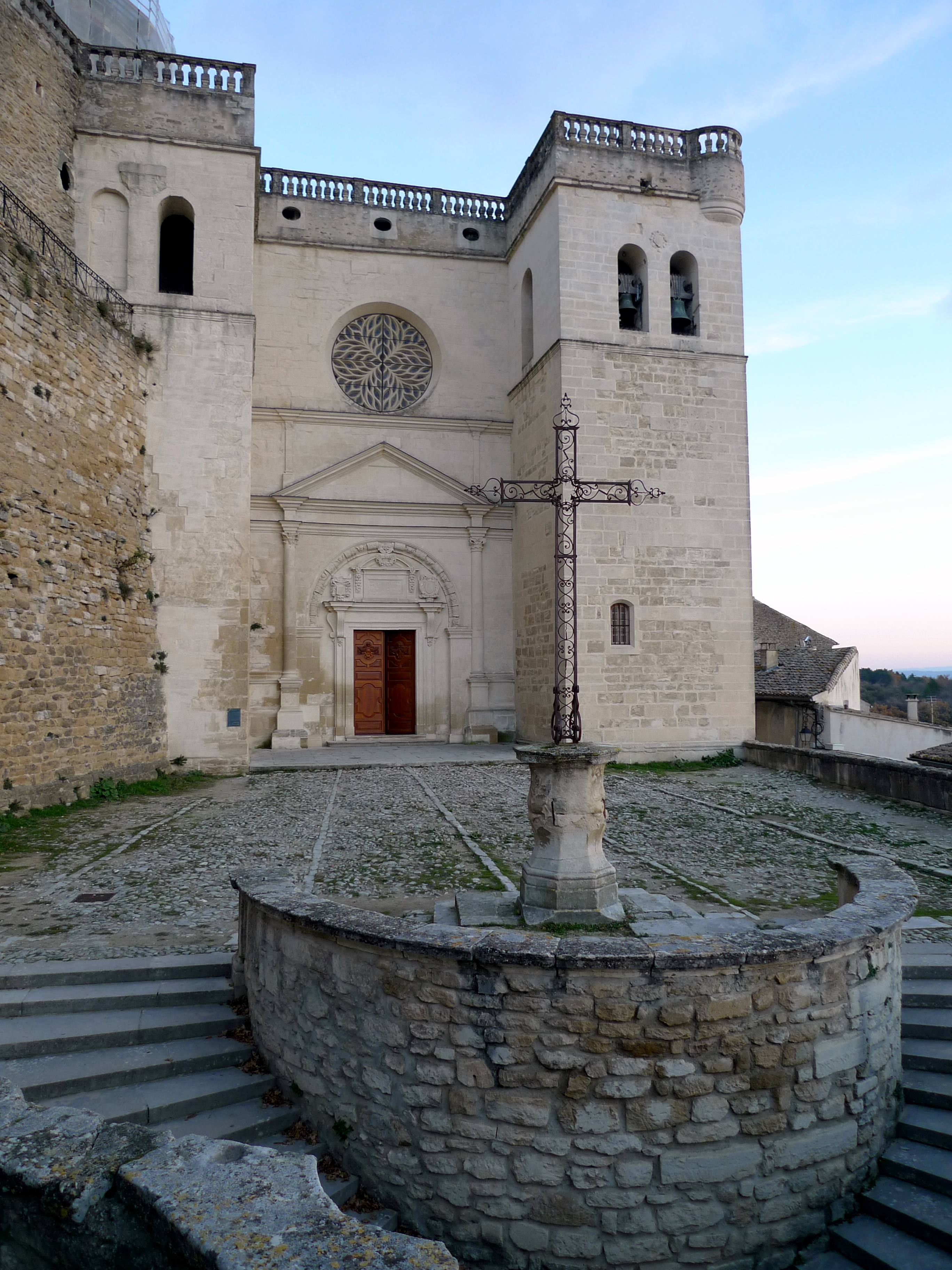 The collegiate church Saint-Sauveur in Grignan